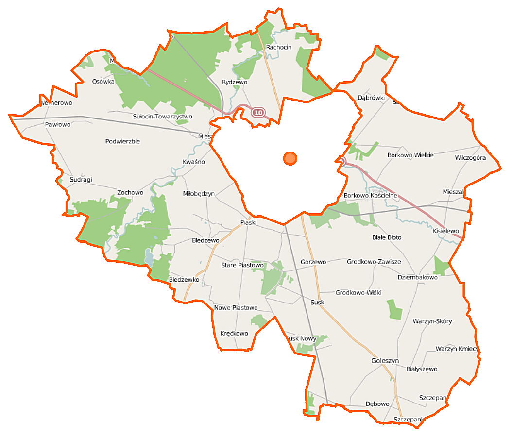 Map of Gmina Sierpc, Poland This map of Sierpc (gmina wiejska) was created from OpenStreetMap project data, collected by the community. This map may be incomplete, and may contain errors. Don't rely solely on it for navigation. Border coordinates52.907019.5035←↕→19.793252.7575